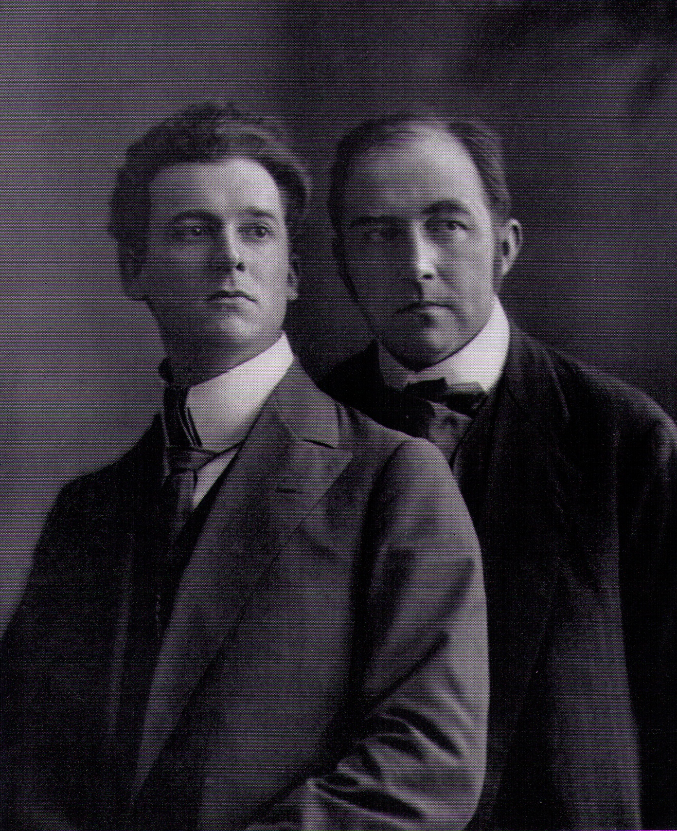 Friedrich Wolters and Berthold Vallentin, members of the George-circle, 1910.